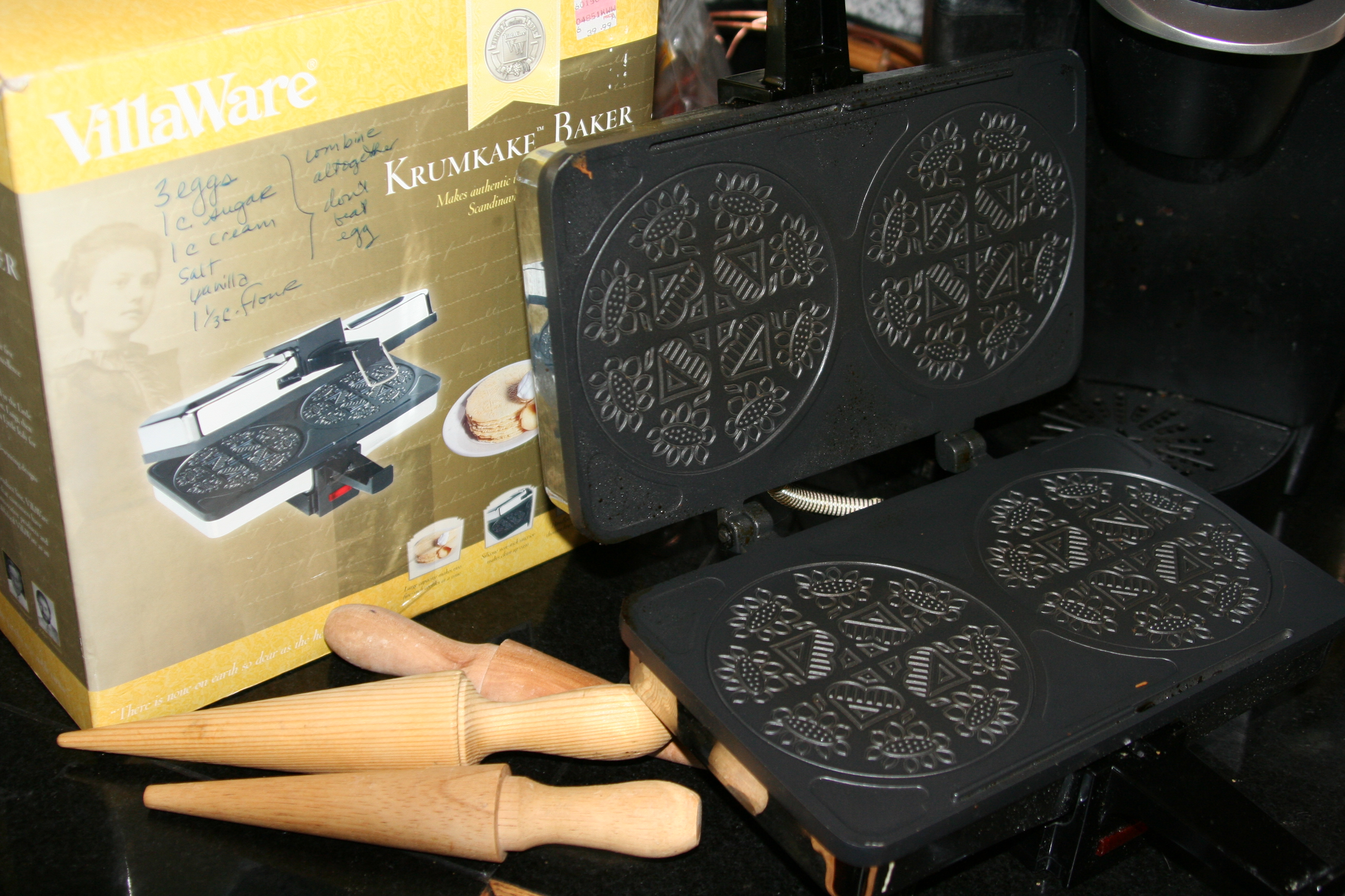 Krumkake rollers, krumkake iron, and box with famile recipe on it. As a courtesy, please let me know when this photograph is used.